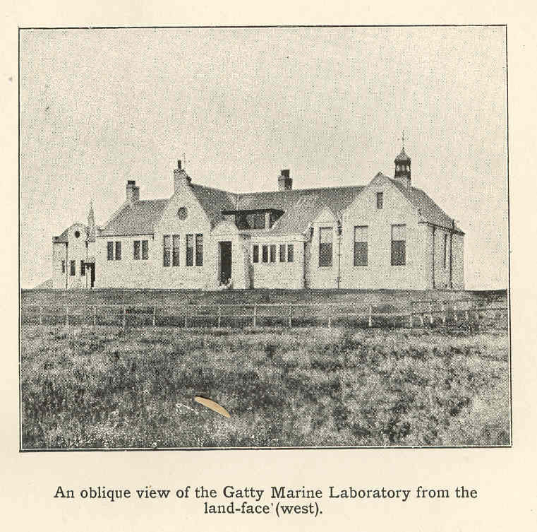 Oblique view of the Gatty Marine Laboratory from the land-face (west) Subject: Gatty Marine Laboratory (St. Andrews, Scotland) Geographic Subject: Scotland--St. Andrews Tag: Hatcheries